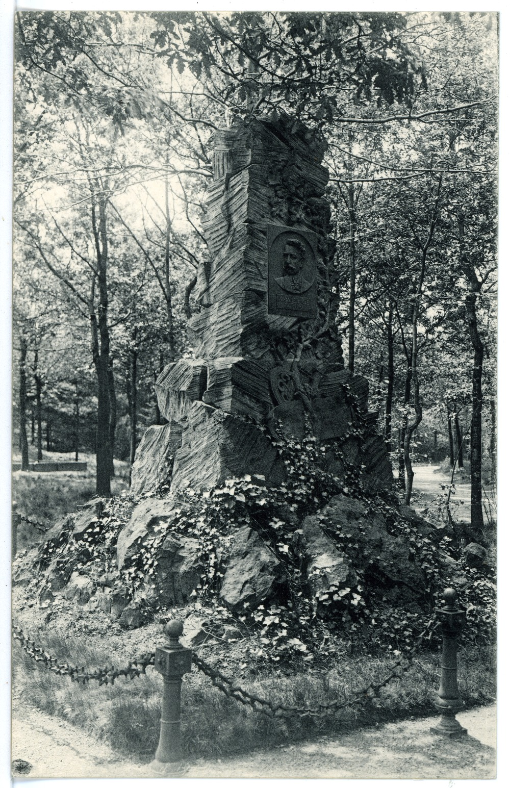 This postcard is from publisher Brück & Sohn in Meißen ( This postcard has a unique number 15804 and is available in a higher resolution at the publisher. This images was uploaded in a cooperation project between Wikipedians and the publisher.